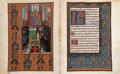 Opening from the Rothschild Prayerbook. See article on en, and here